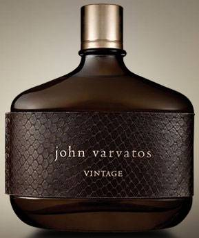 John Varvatos Vintage, 4.2 oz Spray.